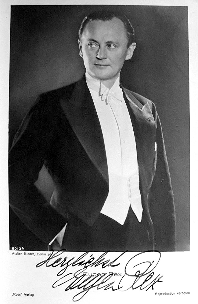 German actor Eugen Rex (1884–1943) by Alexander Binder.